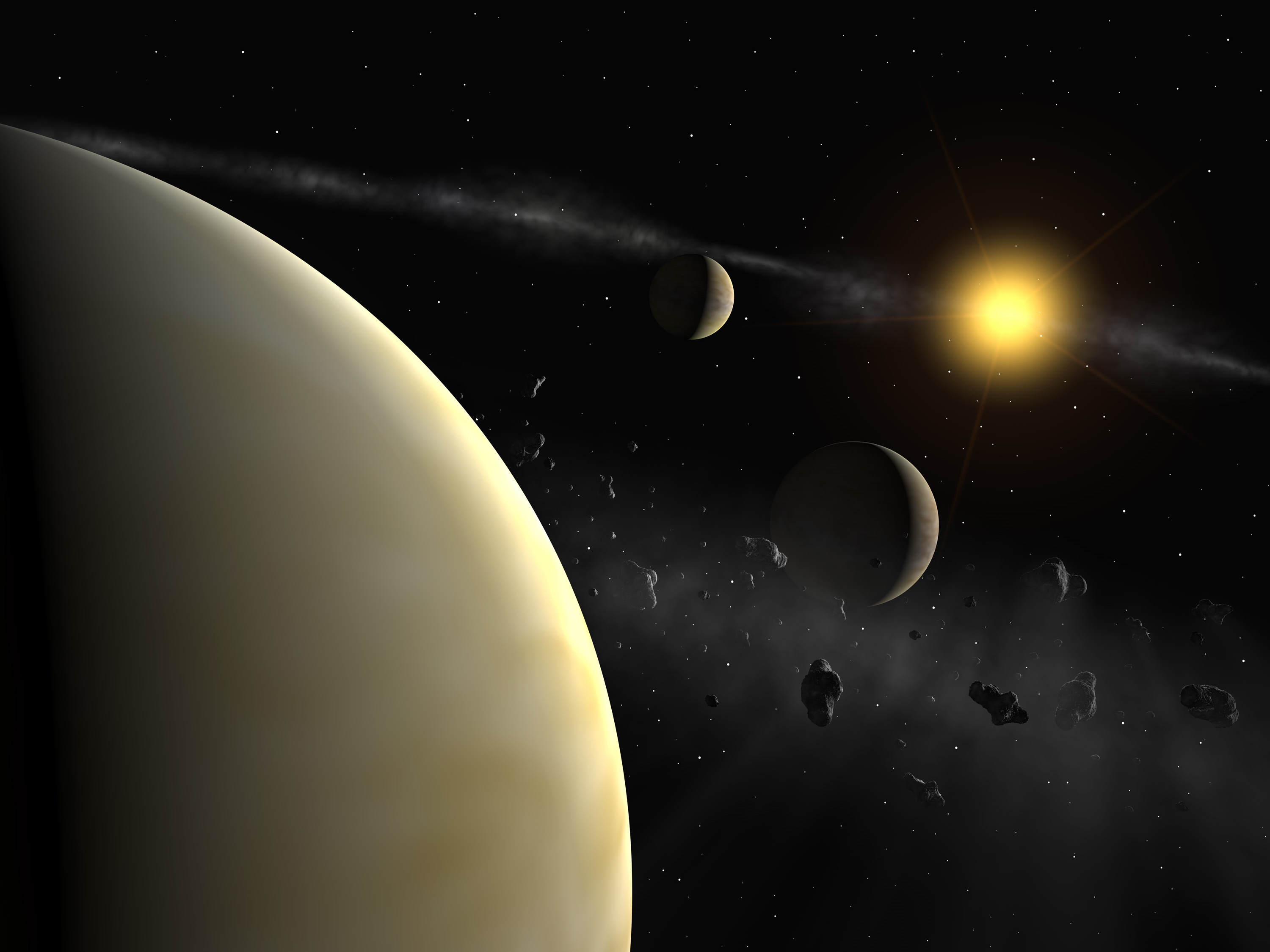 The HARPS measurement reveal the presence of three planets with masses between 10 and 18 Earth masses around HD 69830, a rather normal star slightly less massive than the Sun. The planets' mean distance are 0.08, 0.19, and 0.63 the mean distance between the Earth and the Sun. From previous observations, it seems that there exists also an asteroid belt, whose location is unknown. It could either lie between the two outermost planets, or farther from its parent star than 0.8 the mean Earth-Sun distance.